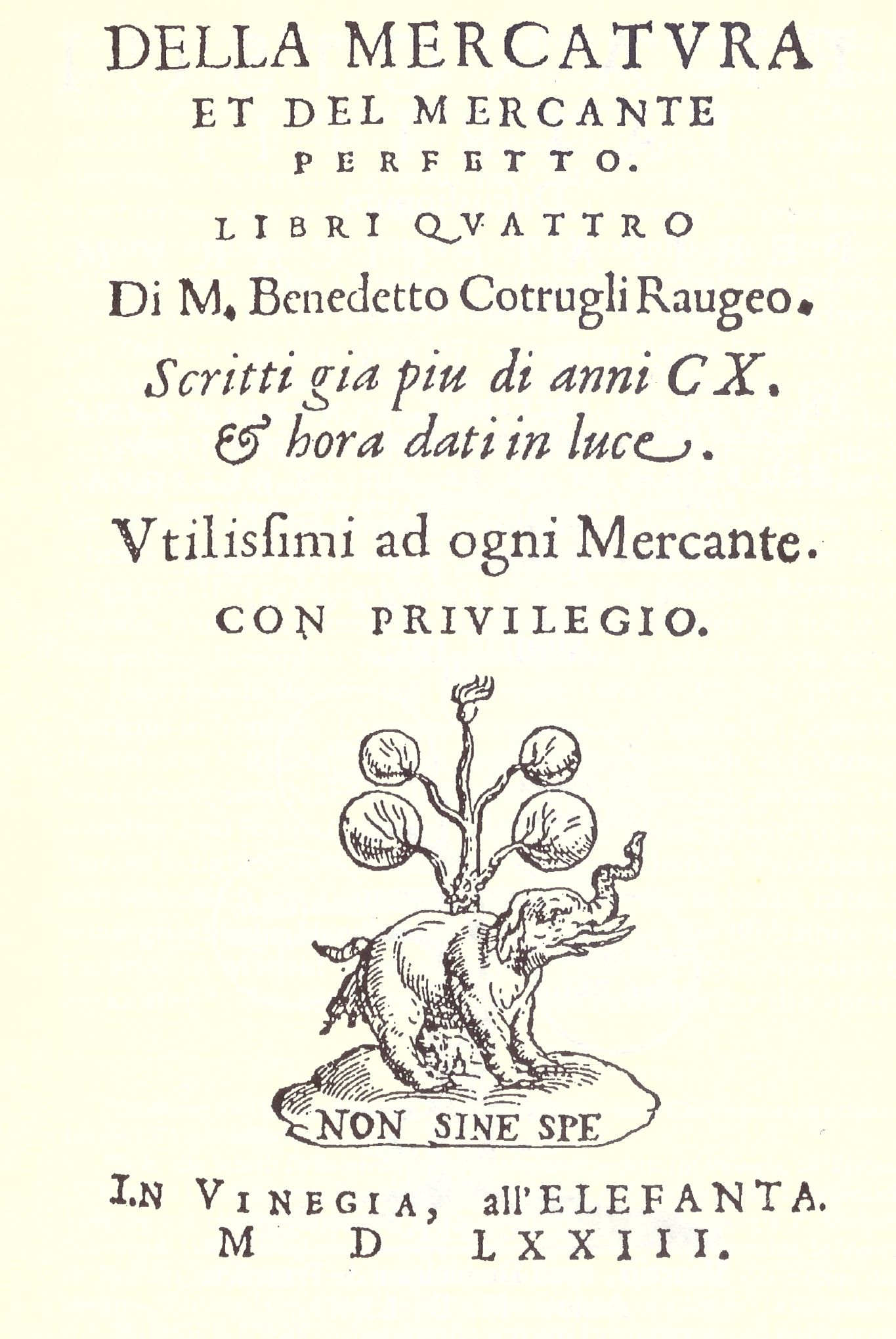 Title page of Benedetto Cotrugli’s treatise Della mercatura e del mercante perfetto. Edition: Venice 1573.